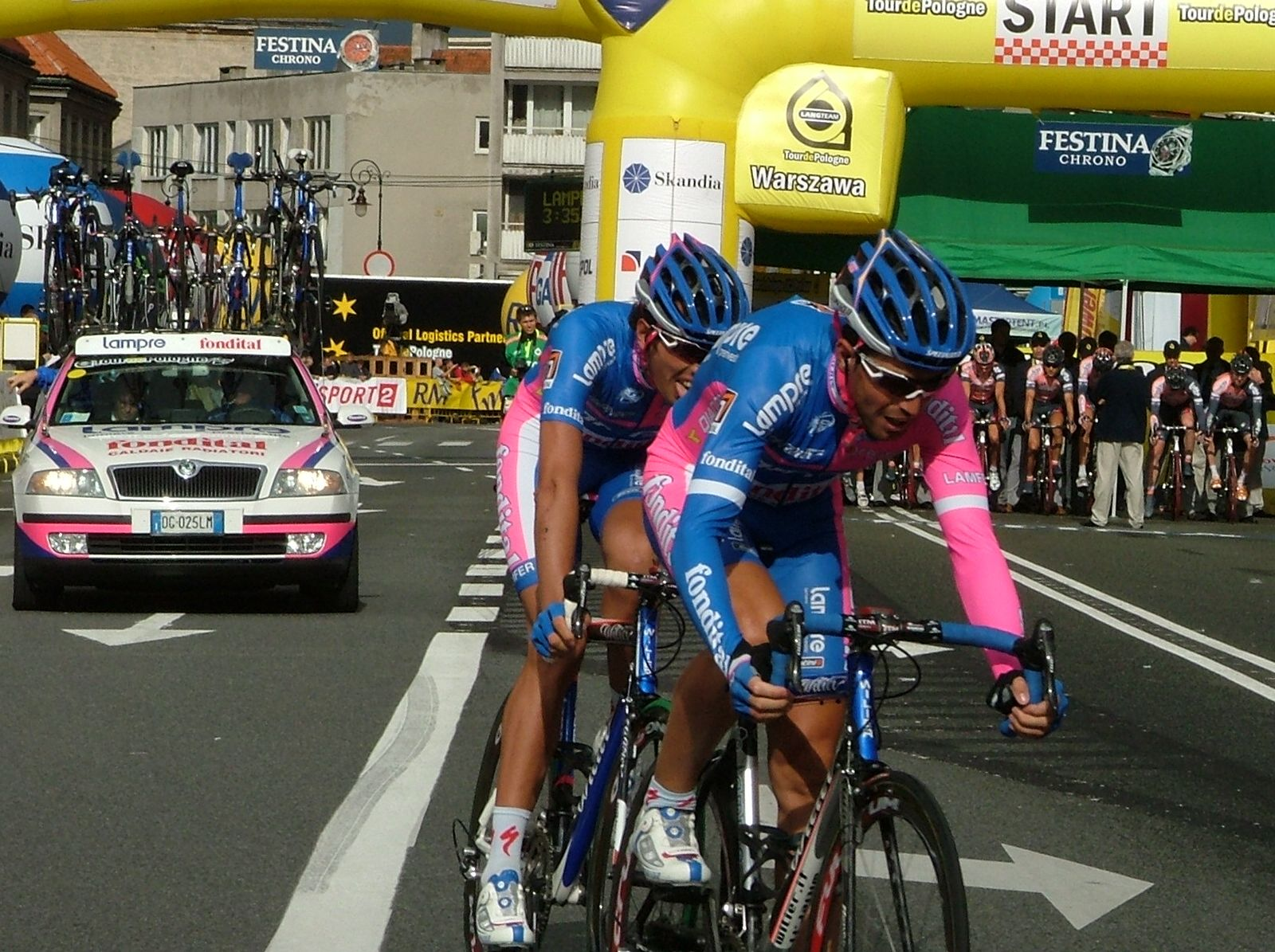 Poland, Warsaw, Tour de Pologne 2007, Stage 1